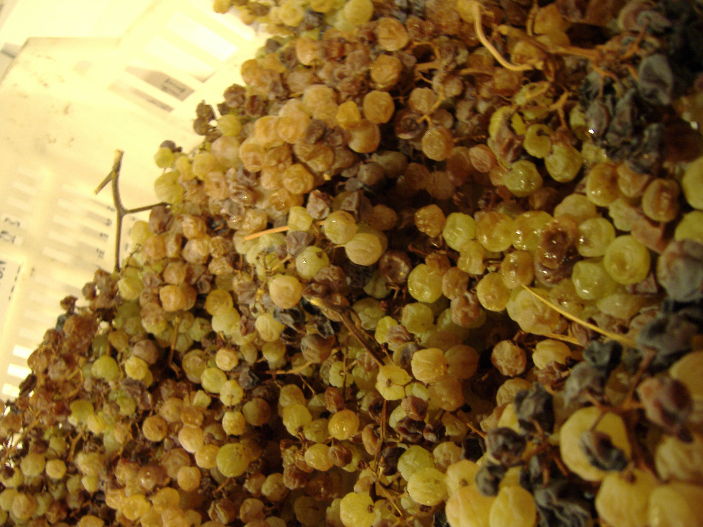 Late harvest grapes being harvested to produce the Italian dessert wine Vin Santo